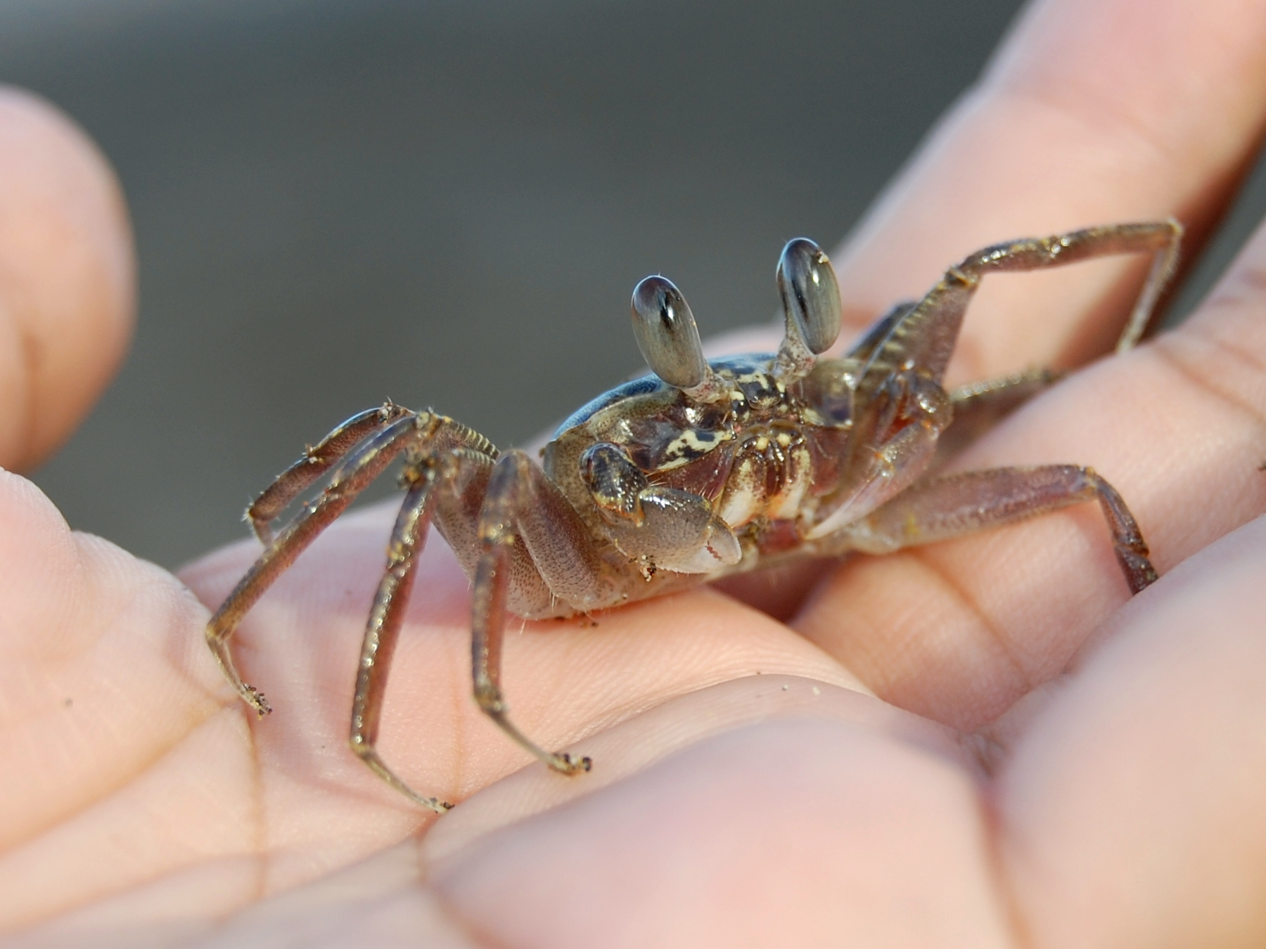 Kuhl's ghost crab, Ocypode kuhlii, 19mm CW. Palabuhanratu, West Java, Indonesia.